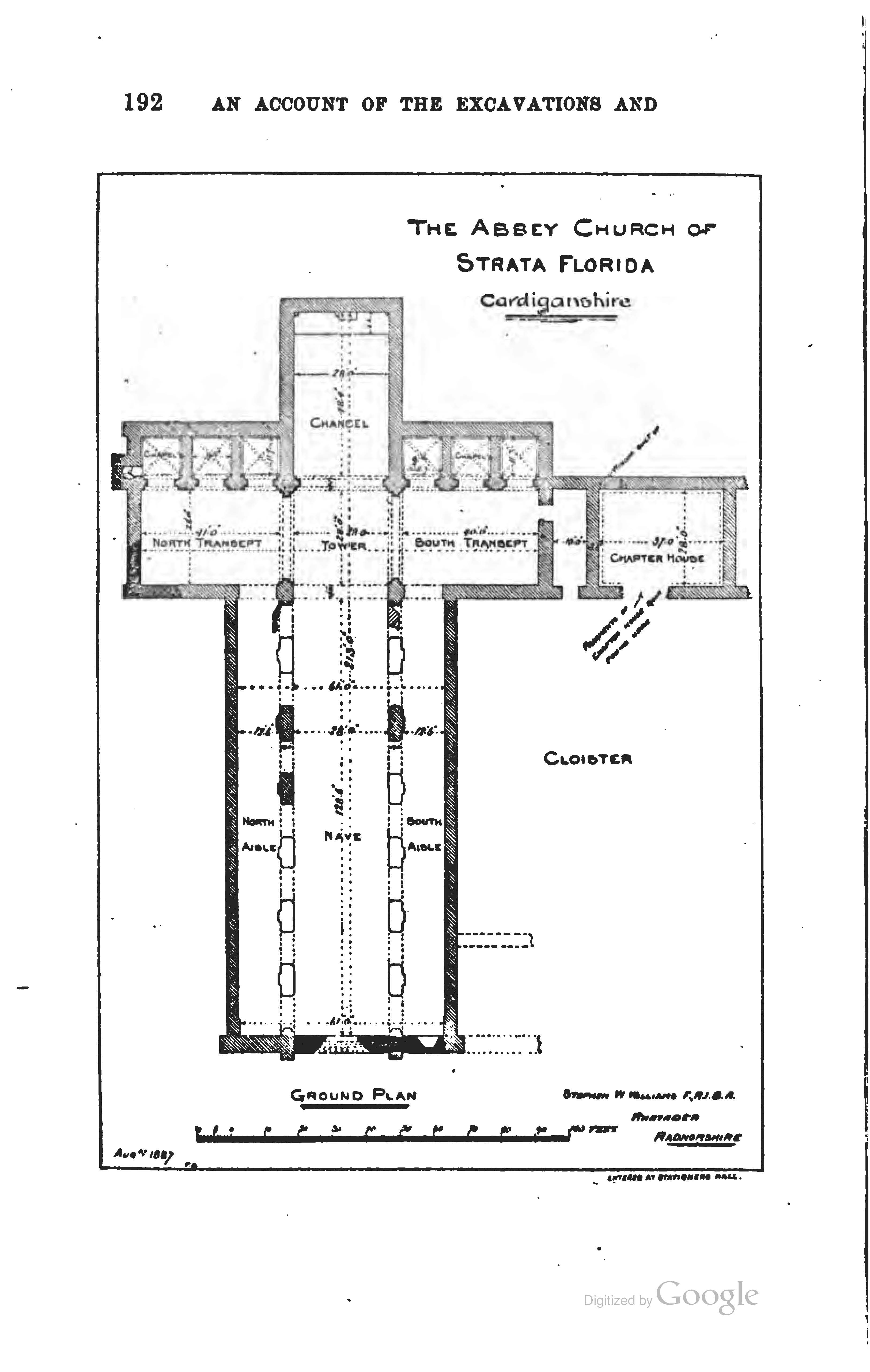 Ground plan, cloister, the Cistercian Abbey of Strata Florida